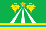 Flag of Krymski raion